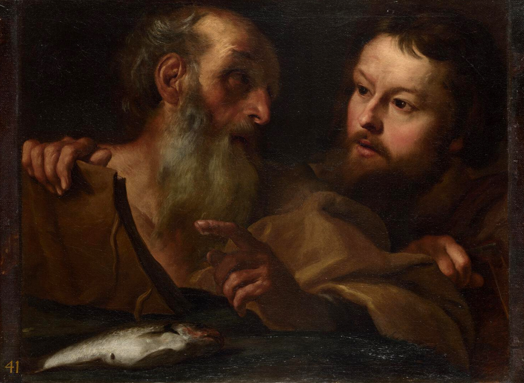 St. Andrew and St. Thomas